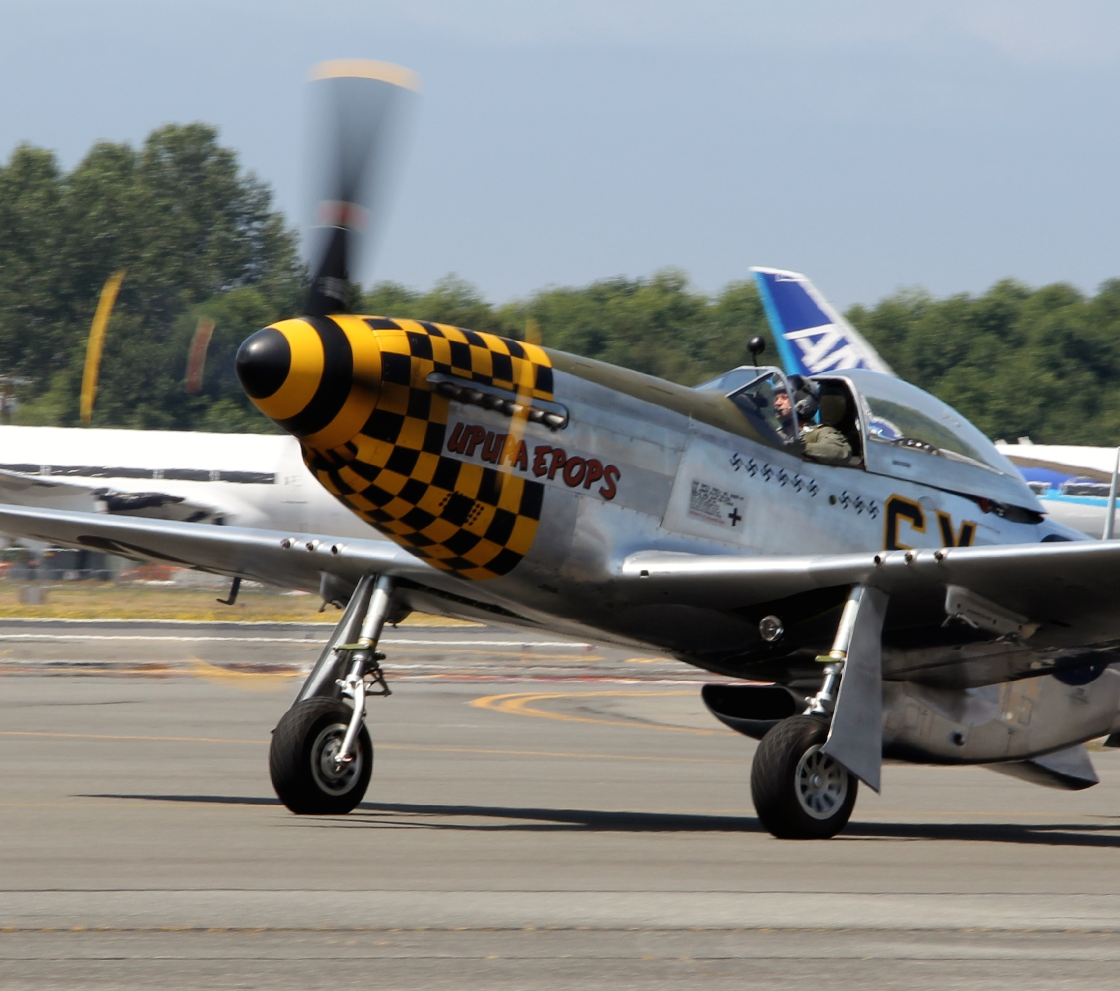 North American P-51D Mustang "Upupa Epops"